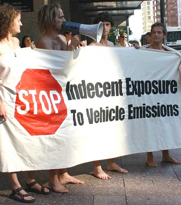 Protesters gathered outside a courthouse on 17 Feb 2005 to protest against the arrest of Simon Oosterman (second from left), Auckland's 13 Feb 2005 WNBR organizer. More info at the Enzyme WNBR website at Stop indecent exposure to vehicle emissions! “The Auckland World Naked Bike Ride’s purpose was to draw attention to oil dependency and the negative social and environmental impacts of a car dominated culture. Last year 250 Aucklanders were killed by vehicle emissions, and 94 people died in car accidents on the roads of Auckland alone” - Simon Oosterman